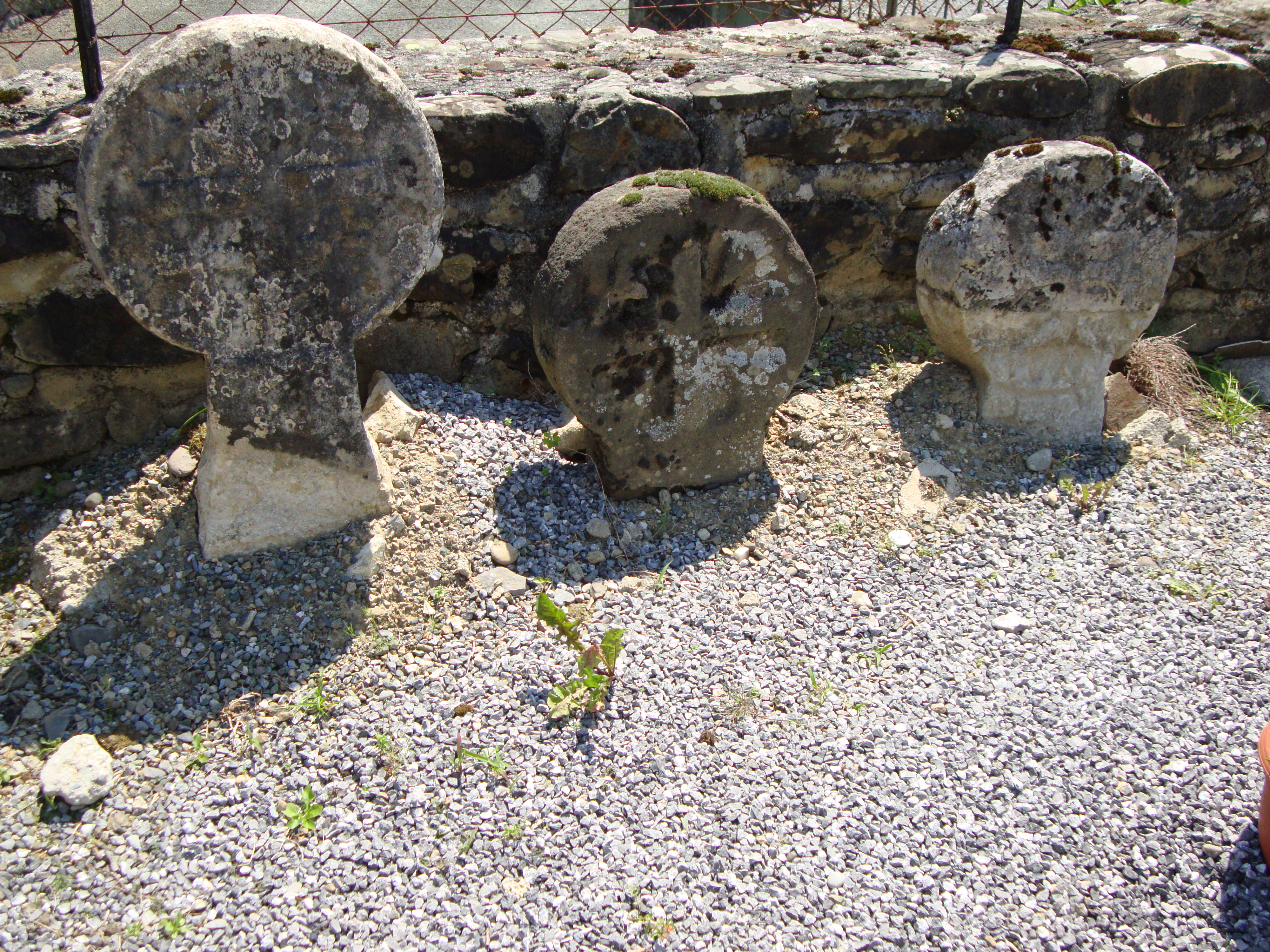 Restoue (Laguinge-Restoue, Pyr-Atl, Fr) old basque steles